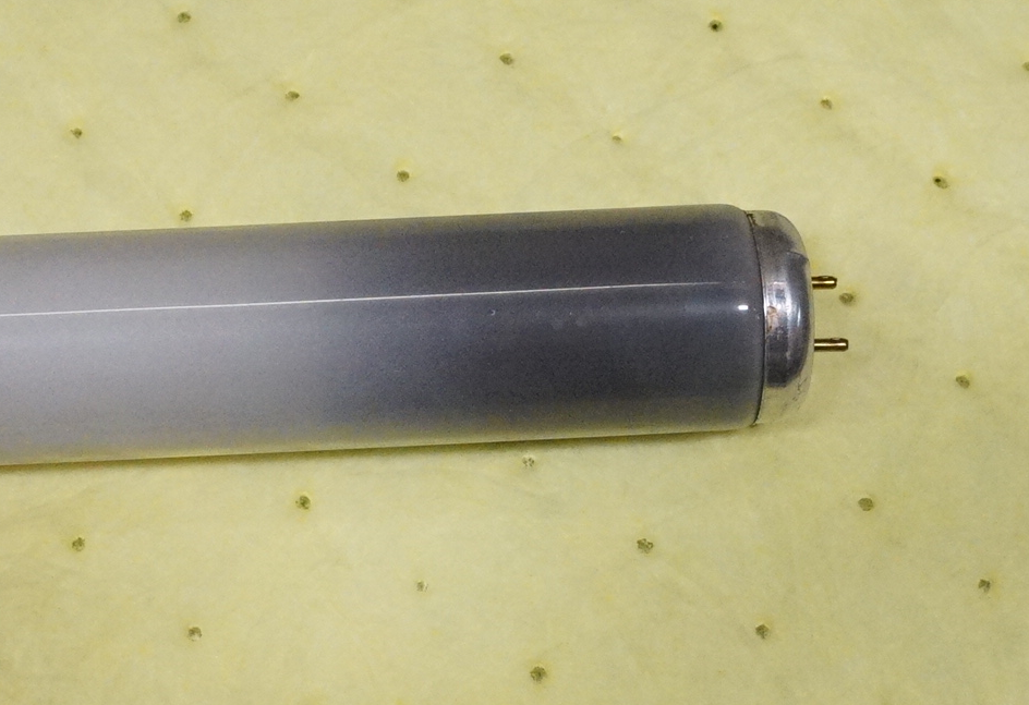 Fluorescent wear in a tube that was turned on and off regularly. The metal forming the cathode sputters and then vaporizes, , quickly adhering to the cooler glass surrounding the electrode. This forms a darkened area on the glass from the metallic deposits. The sputter eventually destroys the electrodes, increasing their work function until the lamp can no longer start.